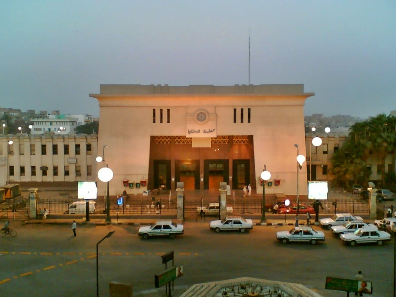 20th century architecture in Minya, Egypt.